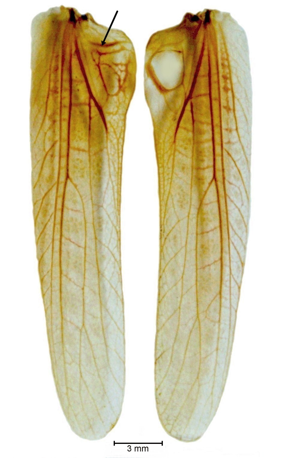 Left and right forewing of an adult male. The arrow indicates the active file. The colour of the wings has changed because of preserving measures